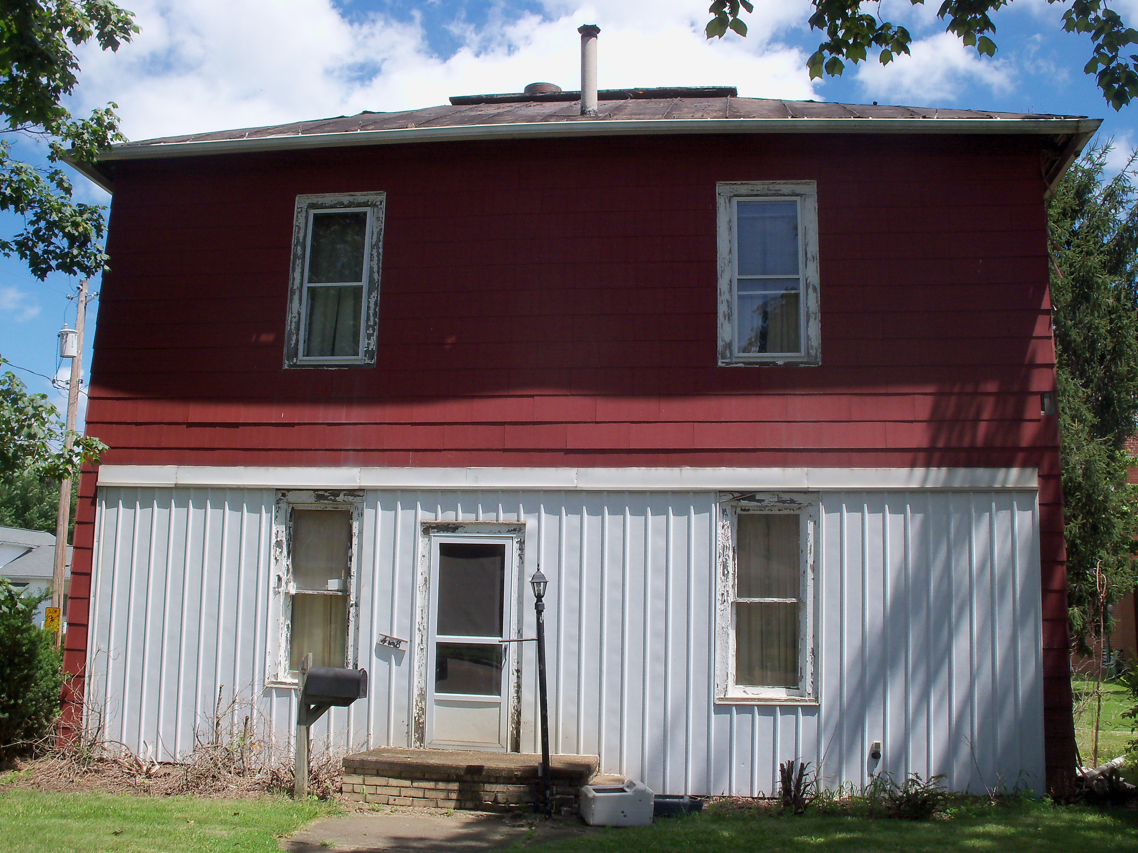 Joseph Medill taught in this one-time school in Navarre, Ohio in the 1840s